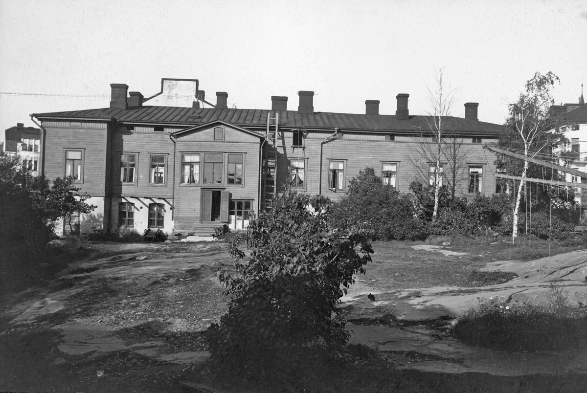 Women's shelter operated by Finnish Emma Mäkinen in Eira, Helsinki, from 1880 onwards.